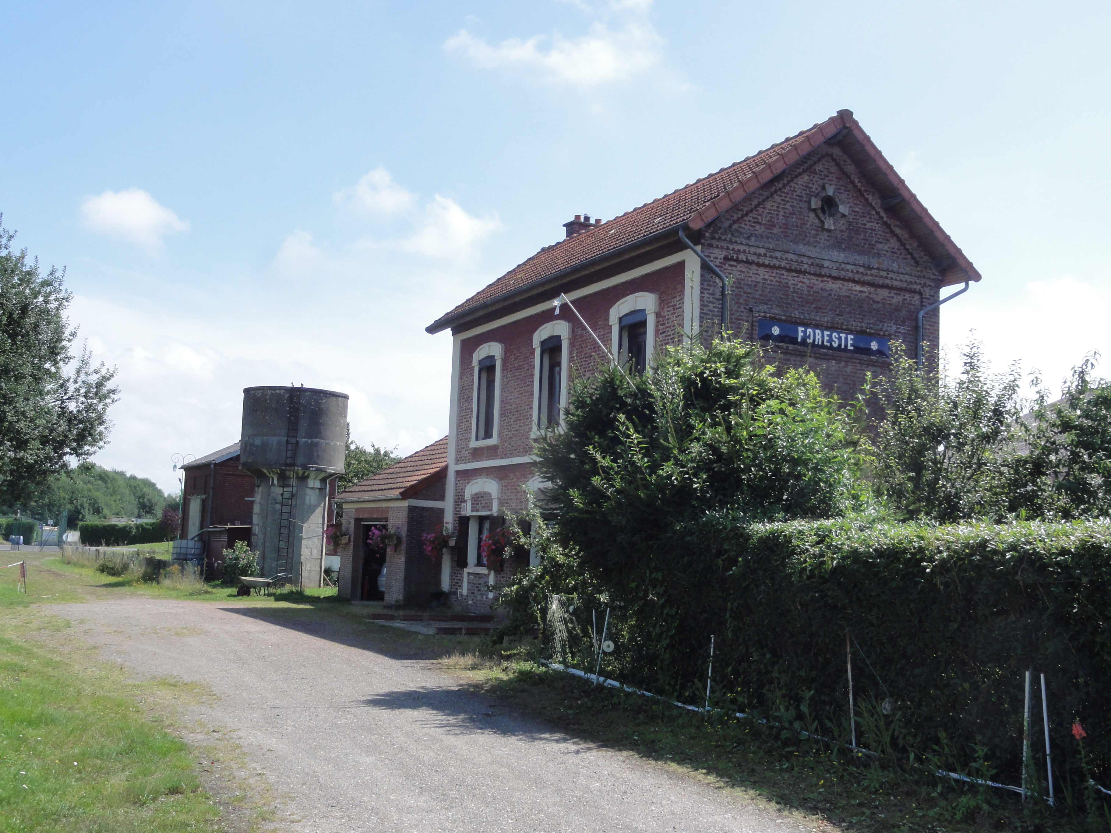 Foreste (Aisne) ancienne gare